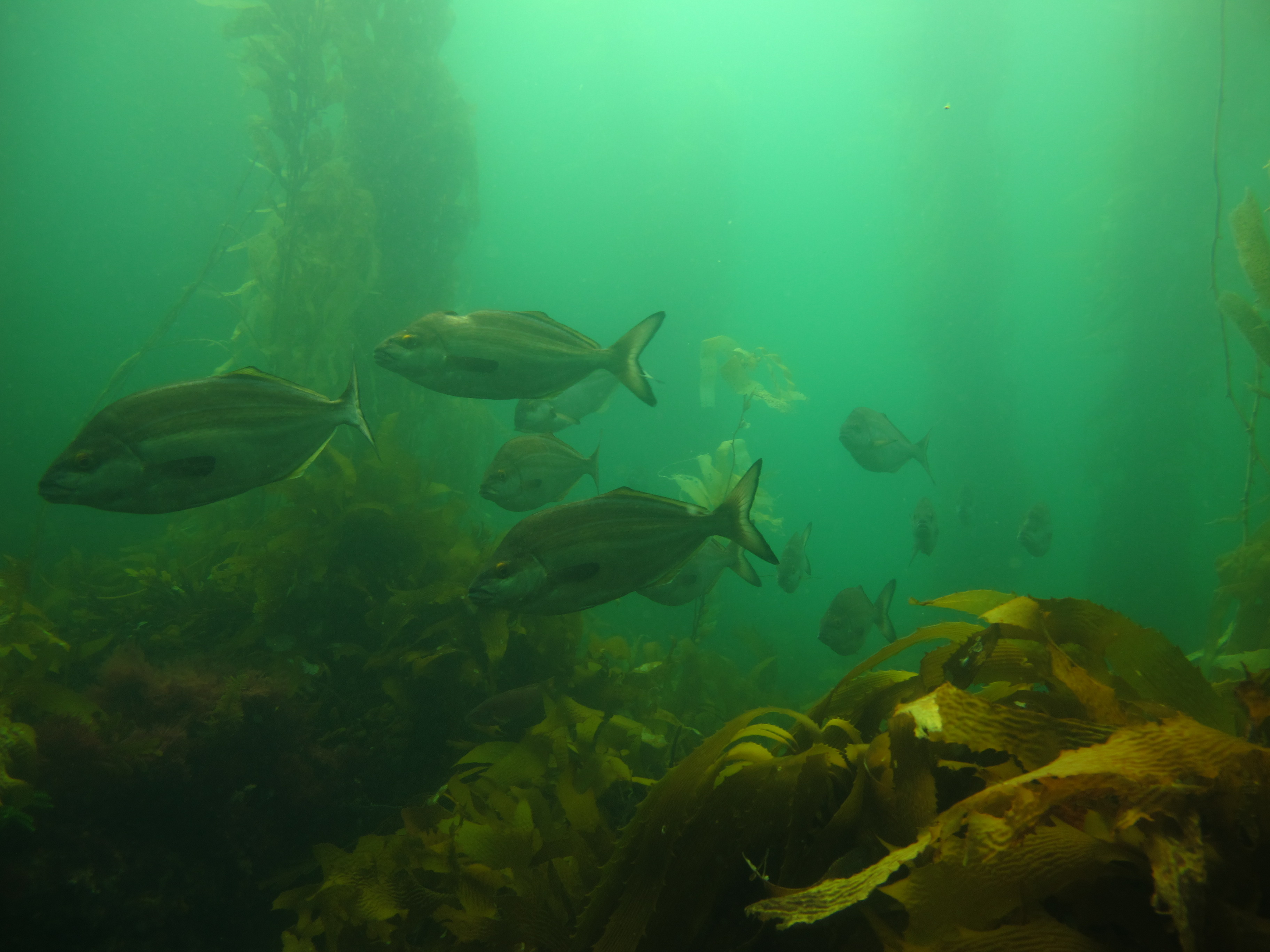 This site always tended to have a giant kelp forest, probably because of the nearby sewage outflow providing nutrients. Pictured are Latridopsis forsteri and Macrocystis pyrifera